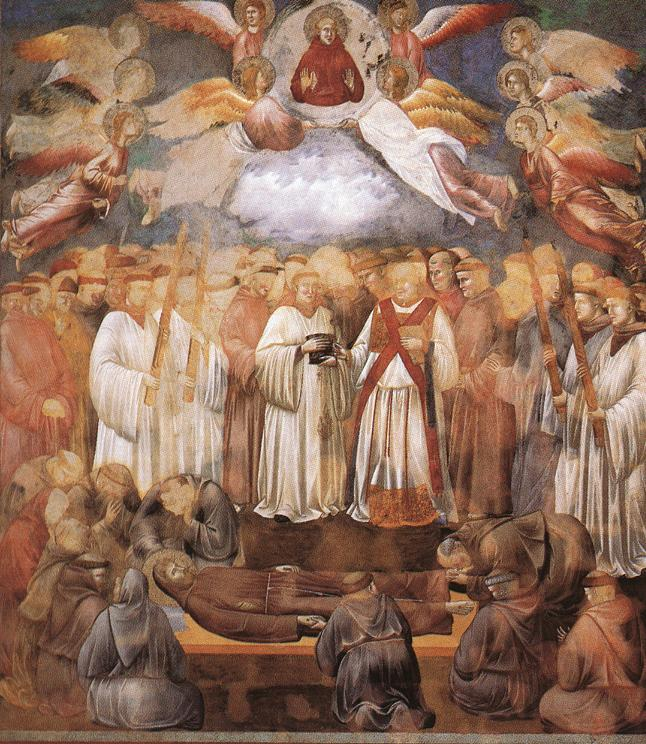 Legend of St Francis